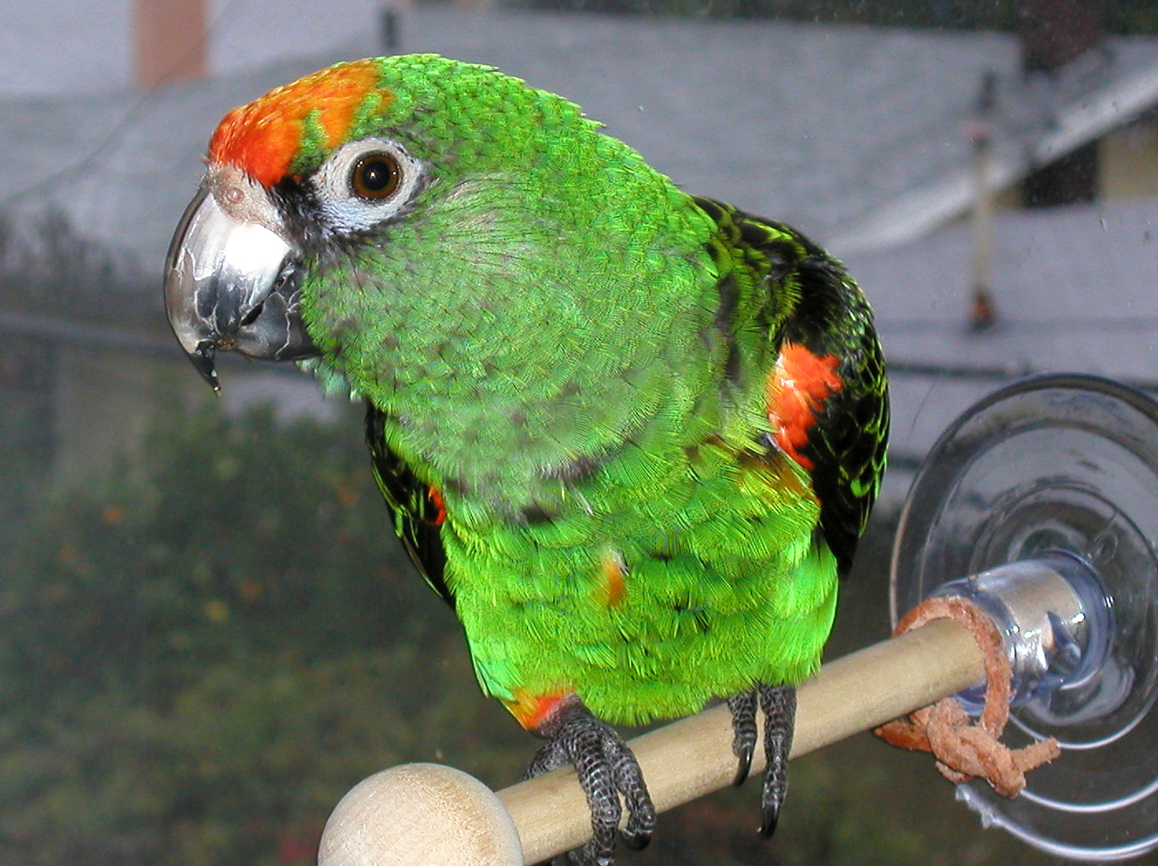 Lesser Jardine's Parrot, Poicephalus gulielmi, 6 years old, female, named 'JuJu', photo taken by author, December 25, 2003. Note: this parrot is current sitting on a perch with a diameter much too small for it's feet size. All birds should be supplied perches that allow for their nails to rest on the perch, rather than the soles of their feet. Otherwise the bird will experience pressure sores and subsequent infections, excessive nail growth, etc.